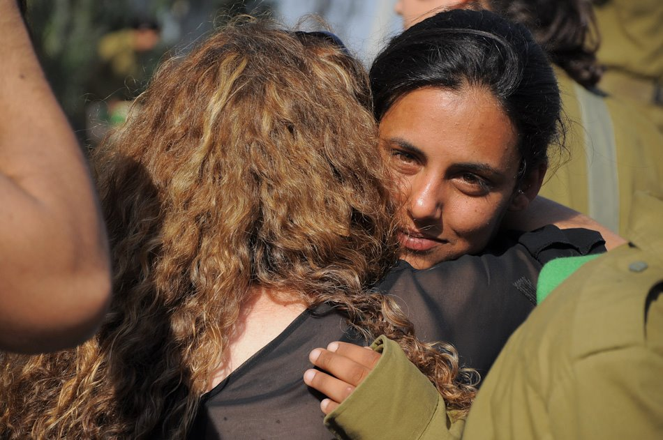 Congratulatory hug Photos by Noa City-Eliyahu, Bamahane The Israel Defense Forces Facebook • blog • Twitter